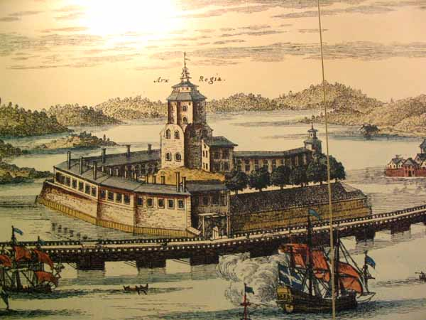 Vyborg Castle in 1709